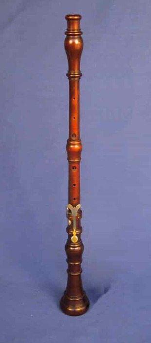 A model of the 17th century, classical taille.